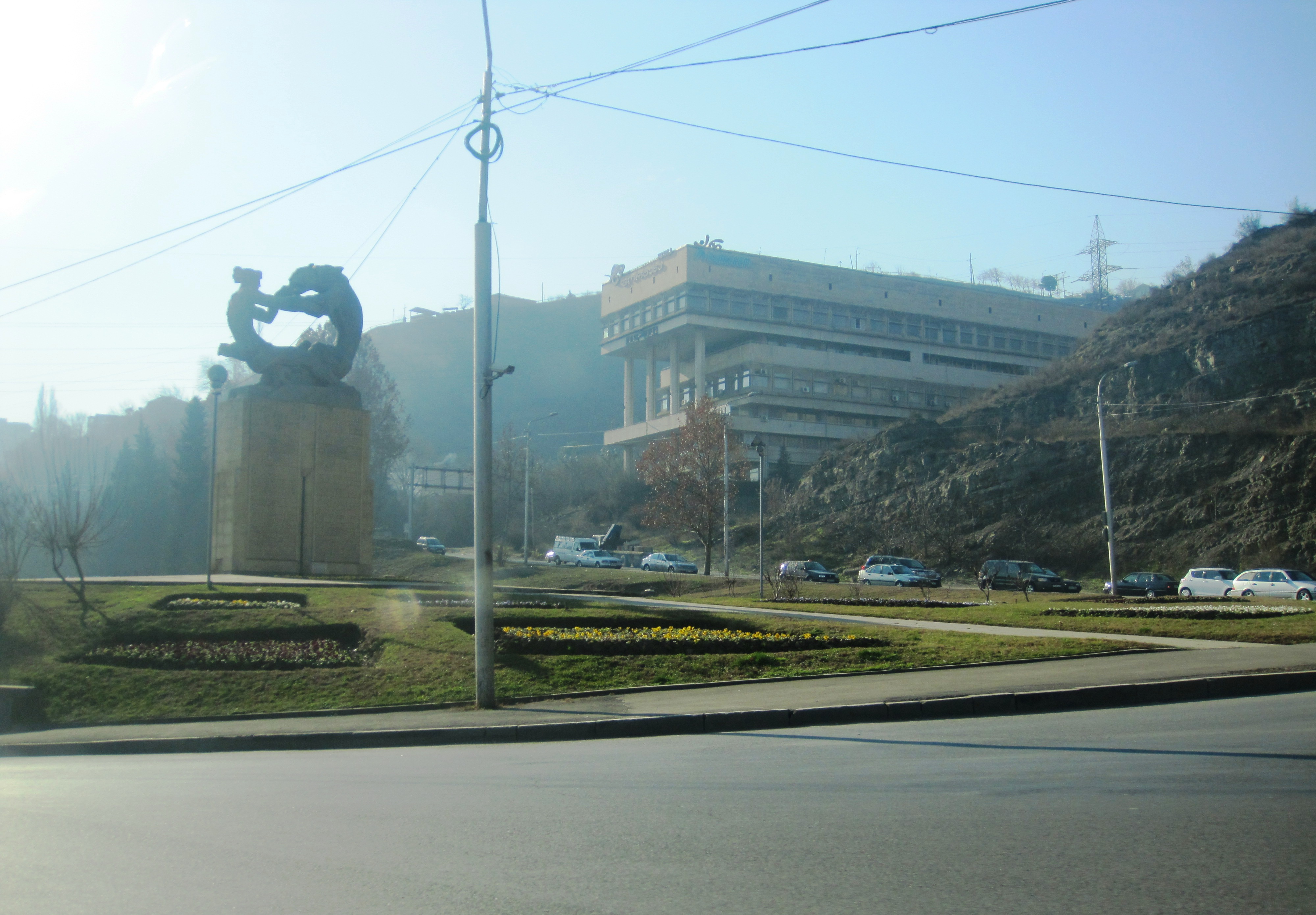 The monument inspired by the folk ballad "Of the Man and Tiger" authored by Elguja Amashukeli (1984) in the Digomi neighborhood of Tbilisi, Georgia.